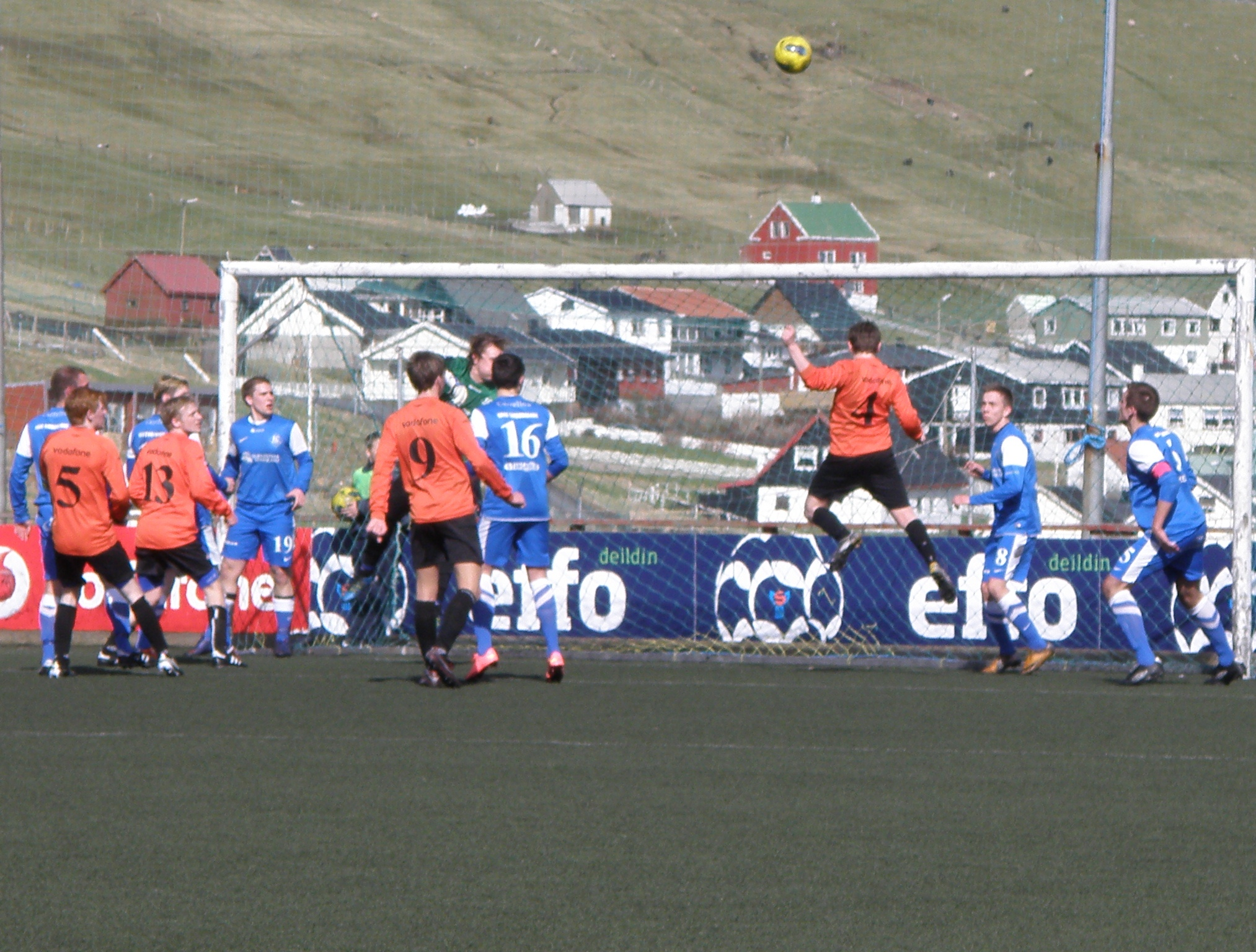 Football (soccer) match in the Faroe Islands Cup 2012, quaterfinal between FC Suðuroy and Skála ÍF. FC Suðuroy won the match 5-0. Føroyskt: Fótbóltsdystur í kappingini um Løgmanssteypið 2012 millum FC Suðuroy úr bestu deildini og Skála úr 1. deild. FC Suðuroy vann dystin 5-0.